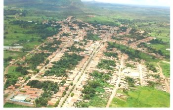 aeria picture of the city of Axixá of Tocantins in 2009.